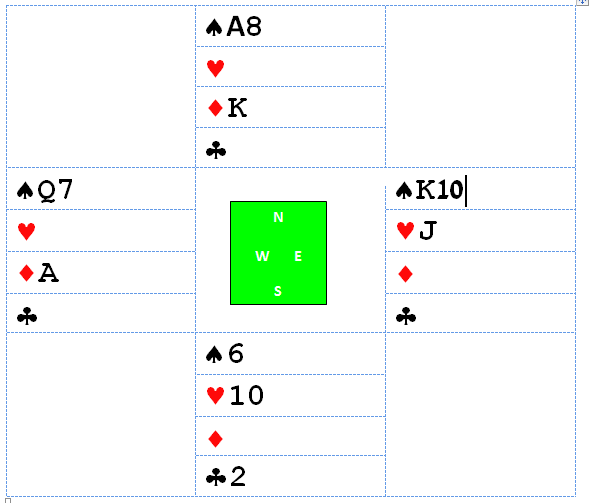 a Double Squeeze play in Bridge